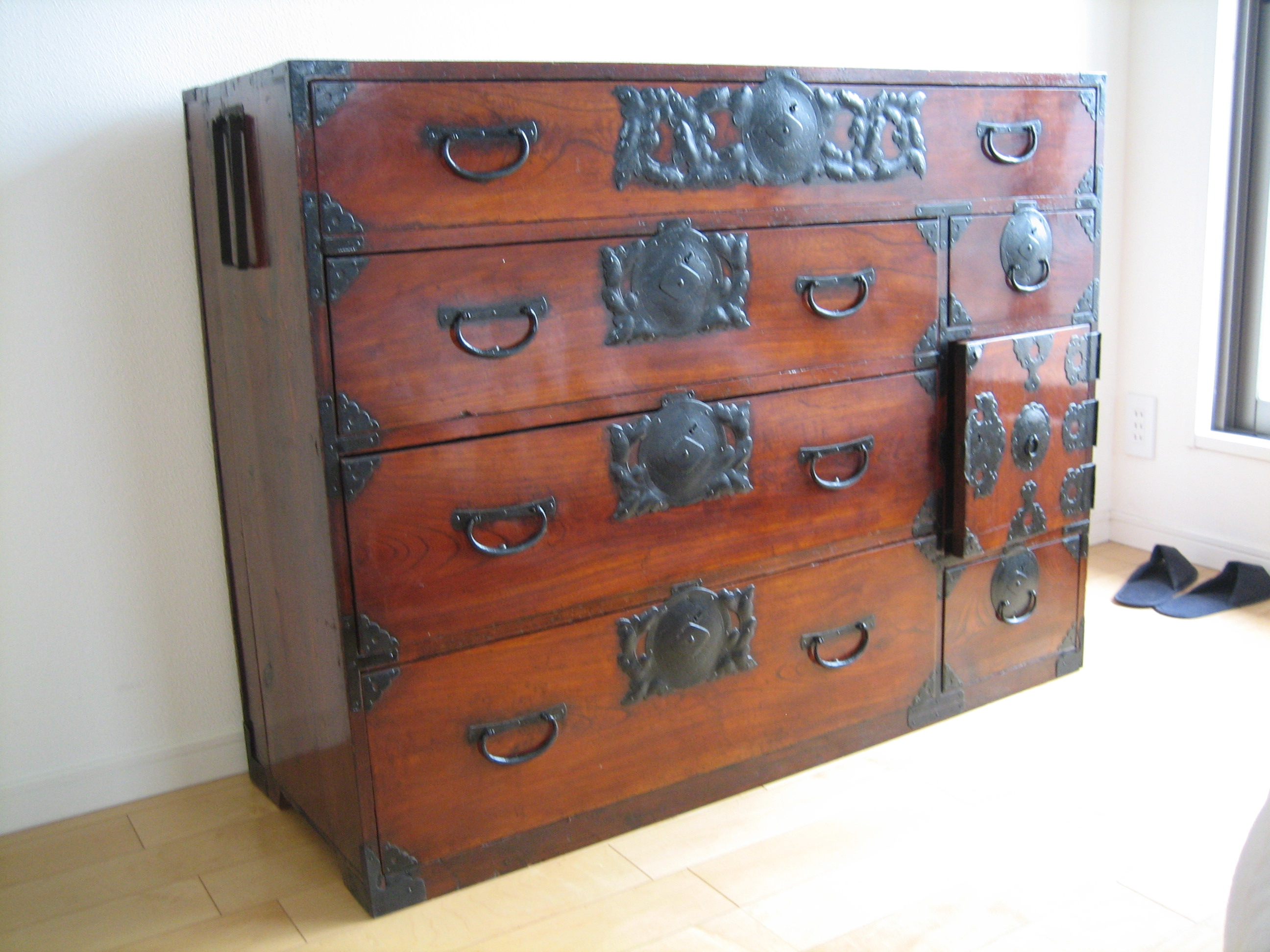 A Sendai-dansu from the Meiji period. Made in Sendai, Japan. Made from Keyaki, zelkova wood and lined with Sugi, cedar wood. Note the elaborate ironwork, handles for carrying on the side, and lockable compartment. Original use would be for storing Kimono, clothing.Attribution: Kraig Donald